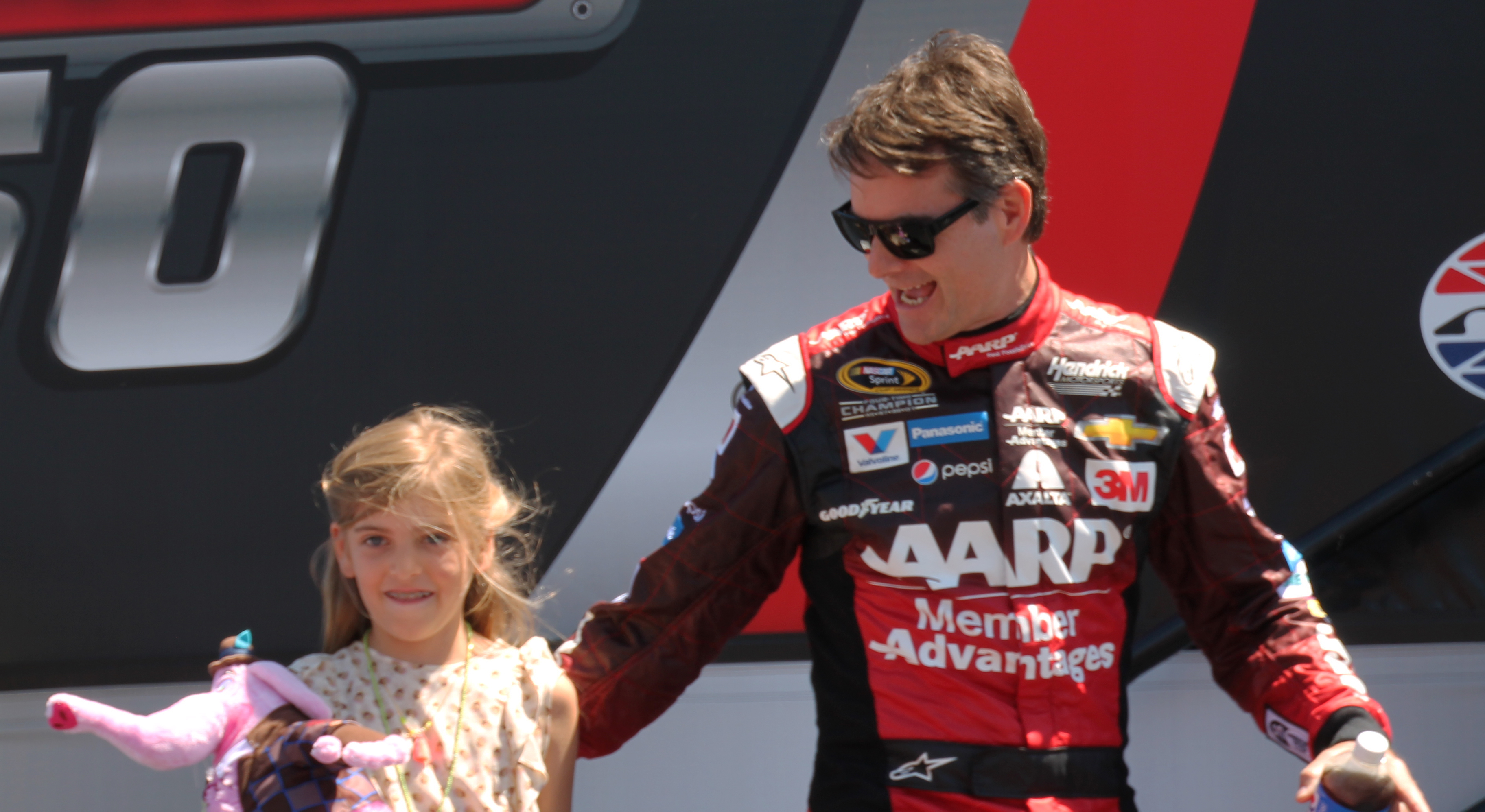 Jeff Gordon with his daughter during driver introductions at the 2015 Toyota/Save Mart 350